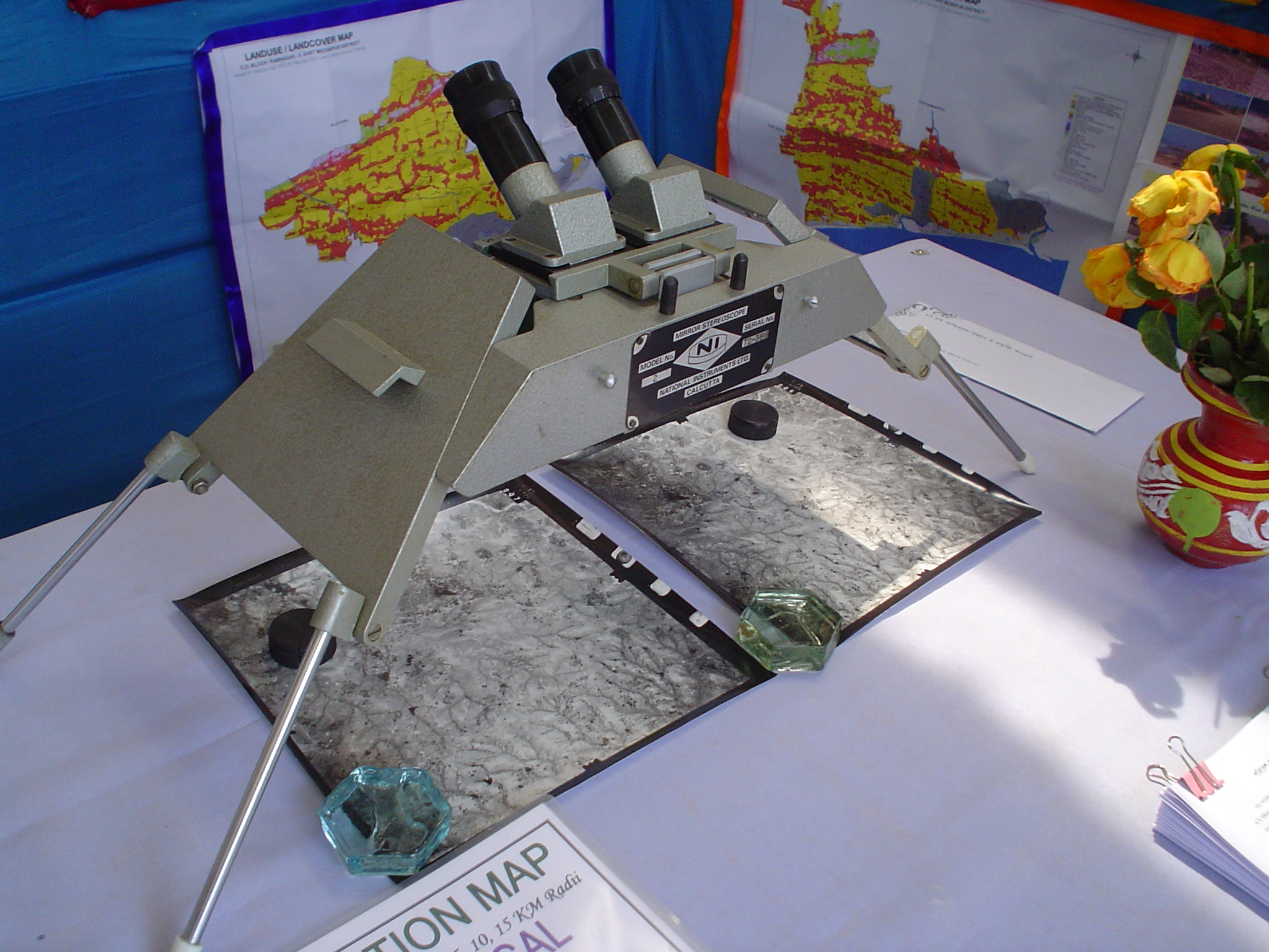 Mirror stereoscope from the National Instruments, Govt. India. 14th Science & Technology Exhibition held at Jadavpur, from 28 February to 1 March, 2007 organiged by the West Bengal Science & Technology Congress.